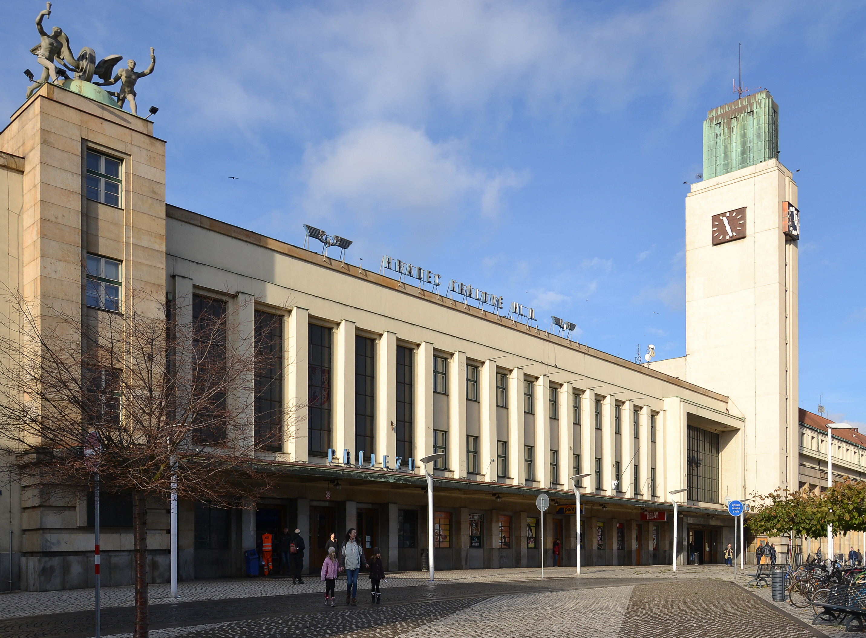 Hradec Králové (Königgrätz) - railway station